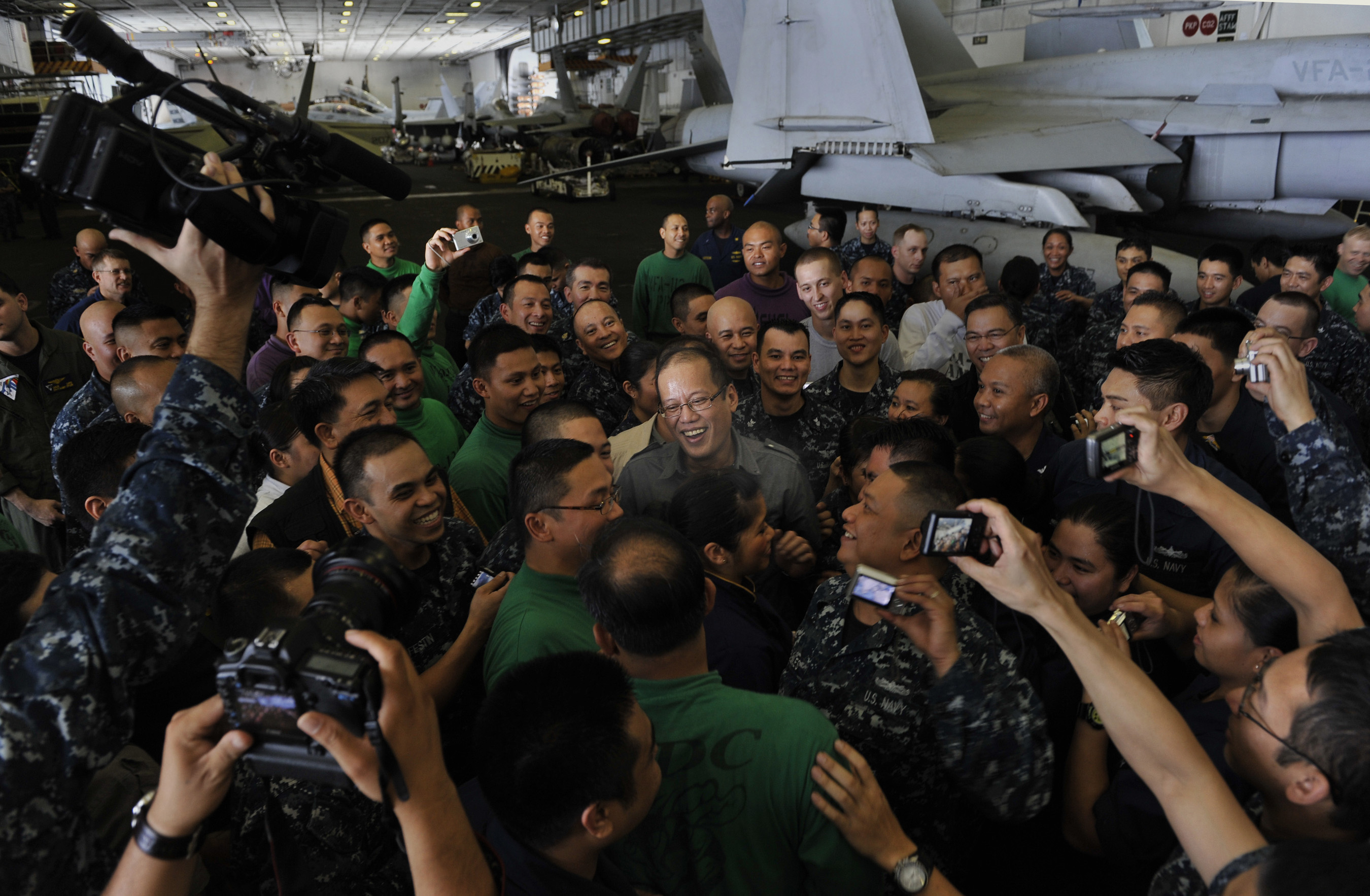 PACIFIC OCEAN (May 14, 2011) Republic of the Philippines President Benigno Aquino III meets with Filipino Sailors in the hangar bay aboard the Nimitz-class aircraft carrier USS Carl Vinson (CVN 70). Carl Vinson and Carrier Air Wing (CVW) 17 are underway in the U.S. 7th Fleet area of responsibility. (U.S. Navy photo by Mass Communication Specialist 2nd Class James R. Evans/Released)